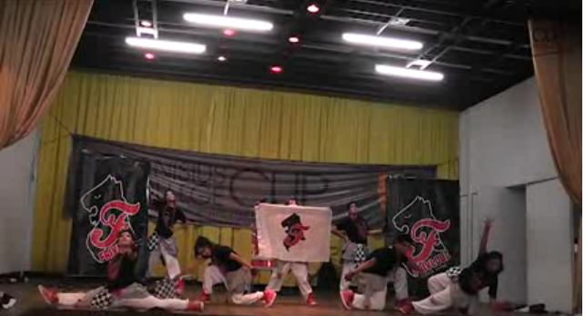 Frivlouz Dance Squad di Kompetisi Modern Dance Canisius College Cup 2012